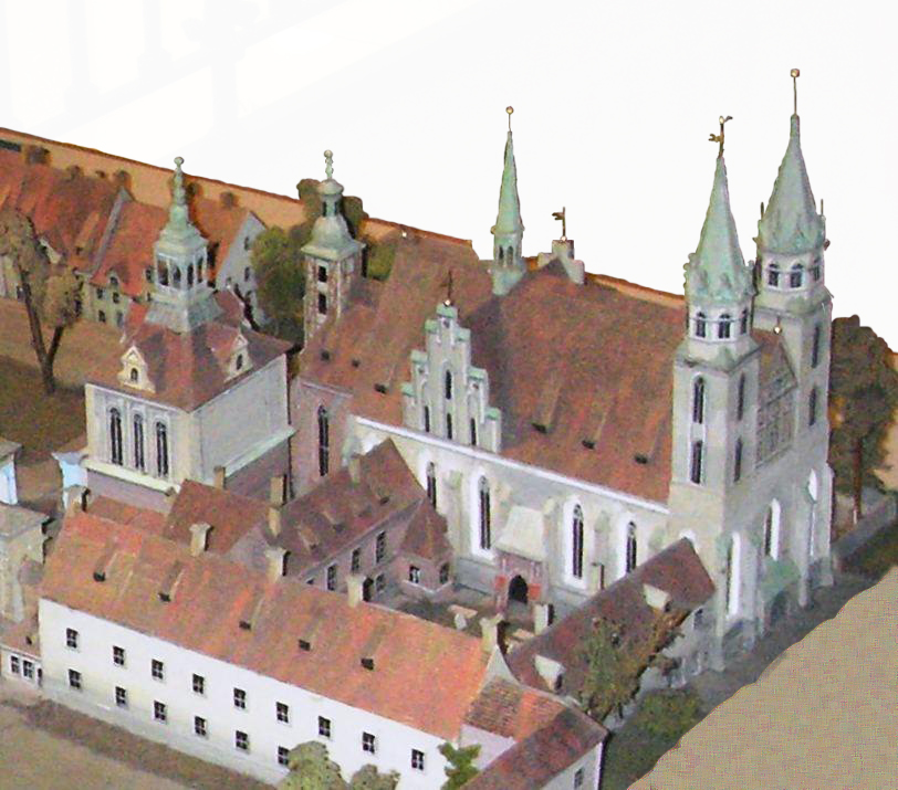 Berlin Dom south of the Palace prior to demolition and moving in 1747 to a new site north of the Palace (model)